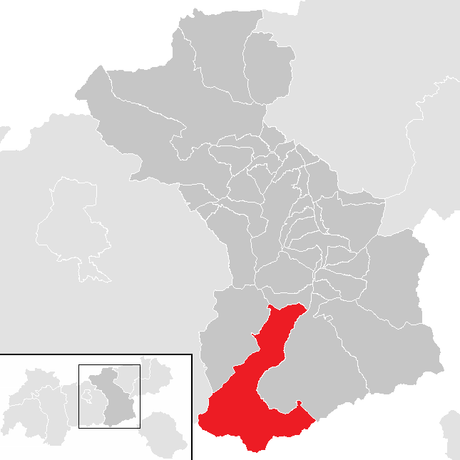 District Schwaz